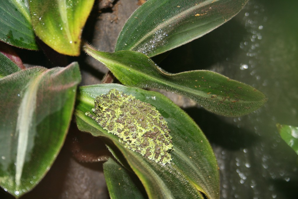 Theloderma corticale